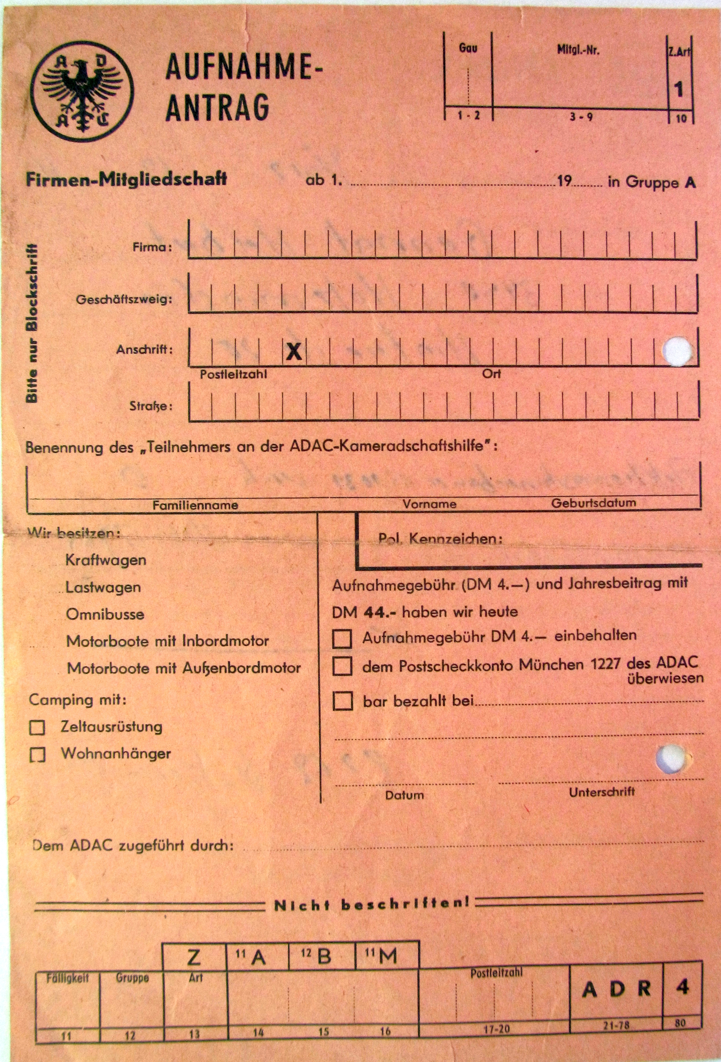 Membership Application for the ADAC (Allgemeiner Deutscher Automobil-Club e.V.) (General German Automobile Club), 1968.